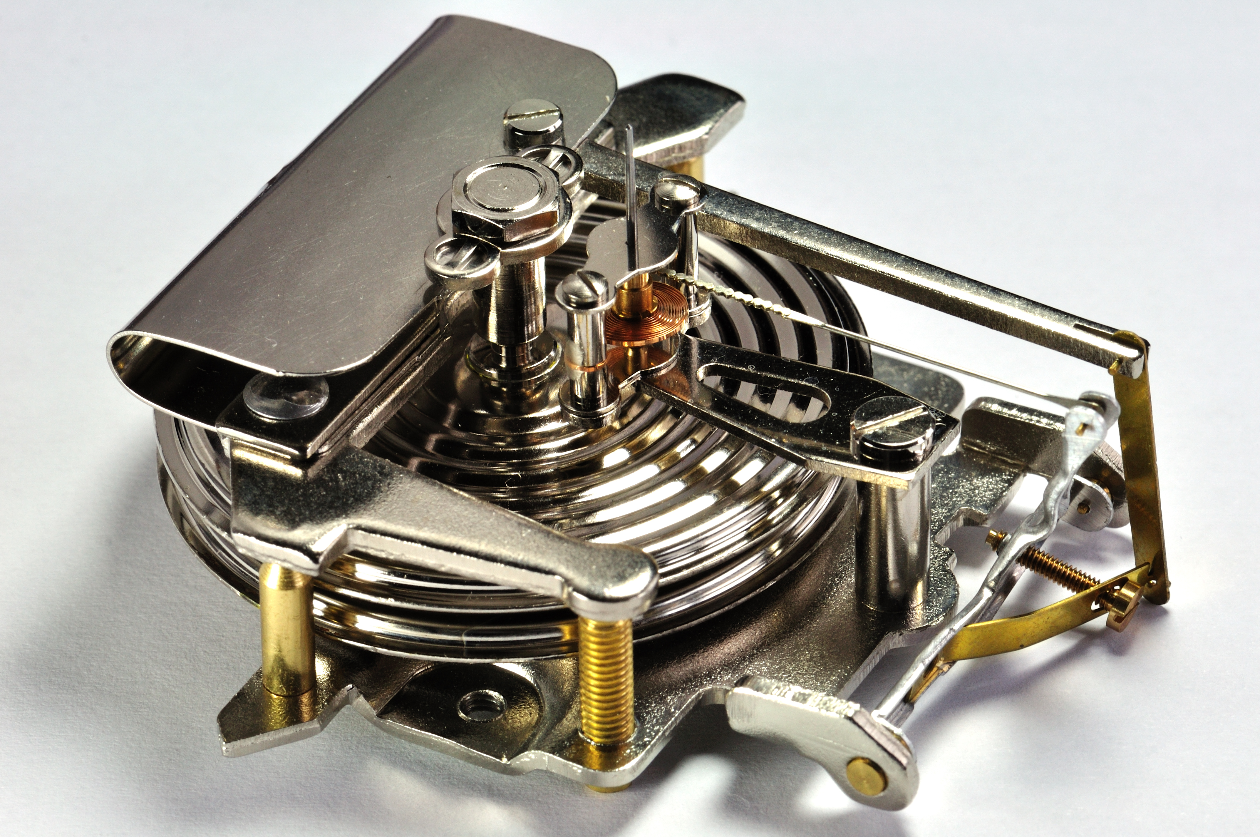 Inside a Aneroidbarometer.